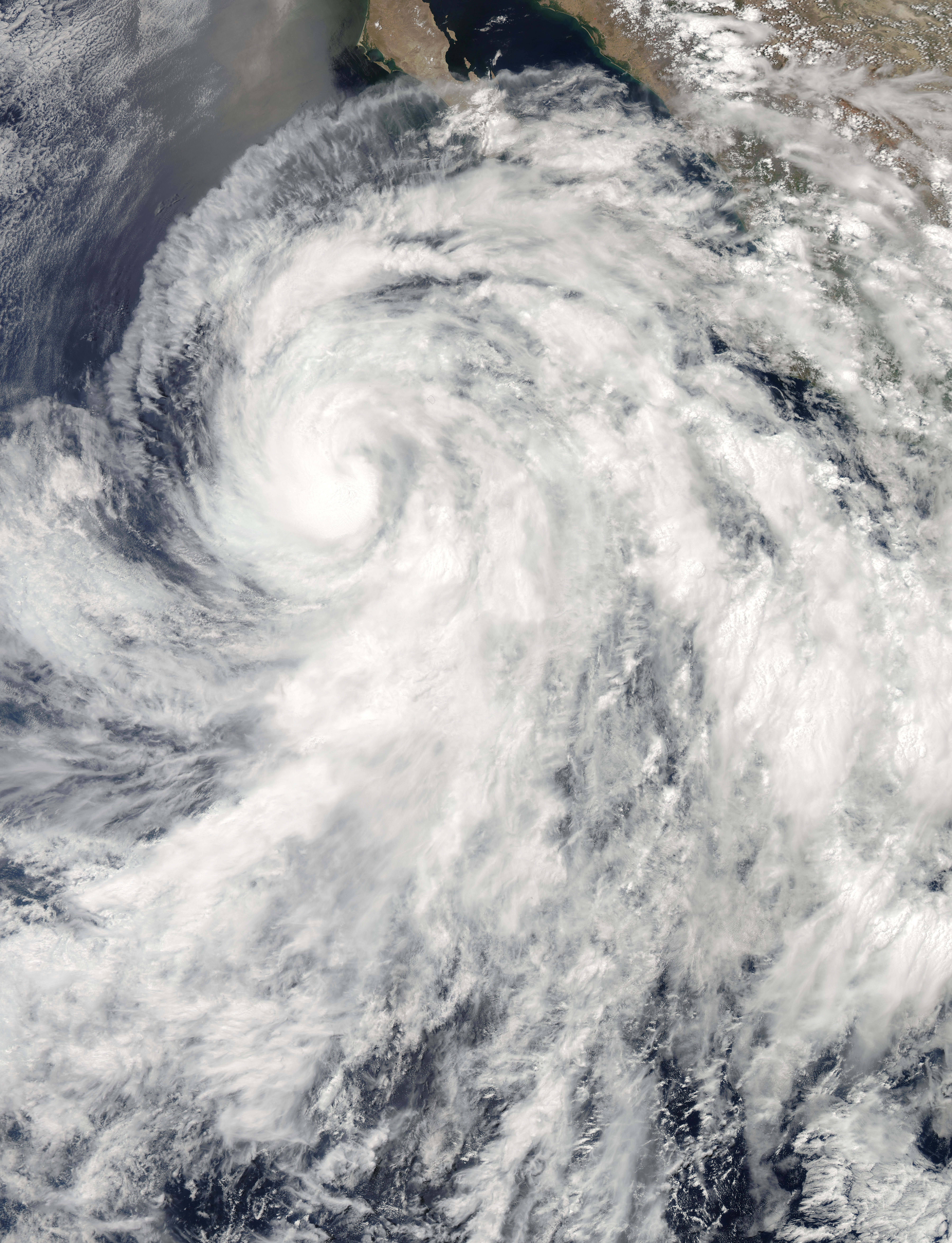 Hurricane Cosme passing by Socorro Island.